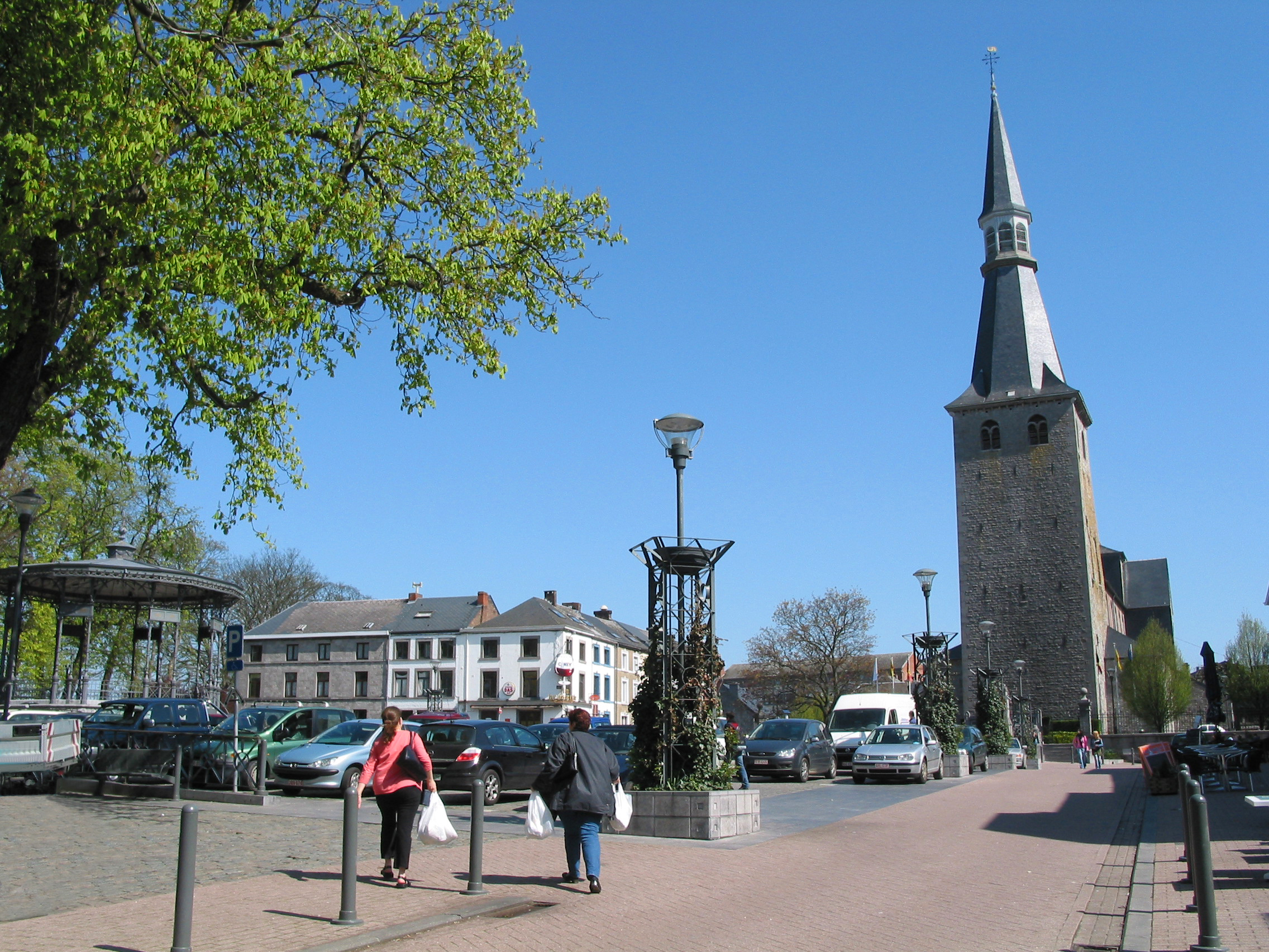 Ciney, the Monseu Place, the bandstand and the St. Nicolas church.